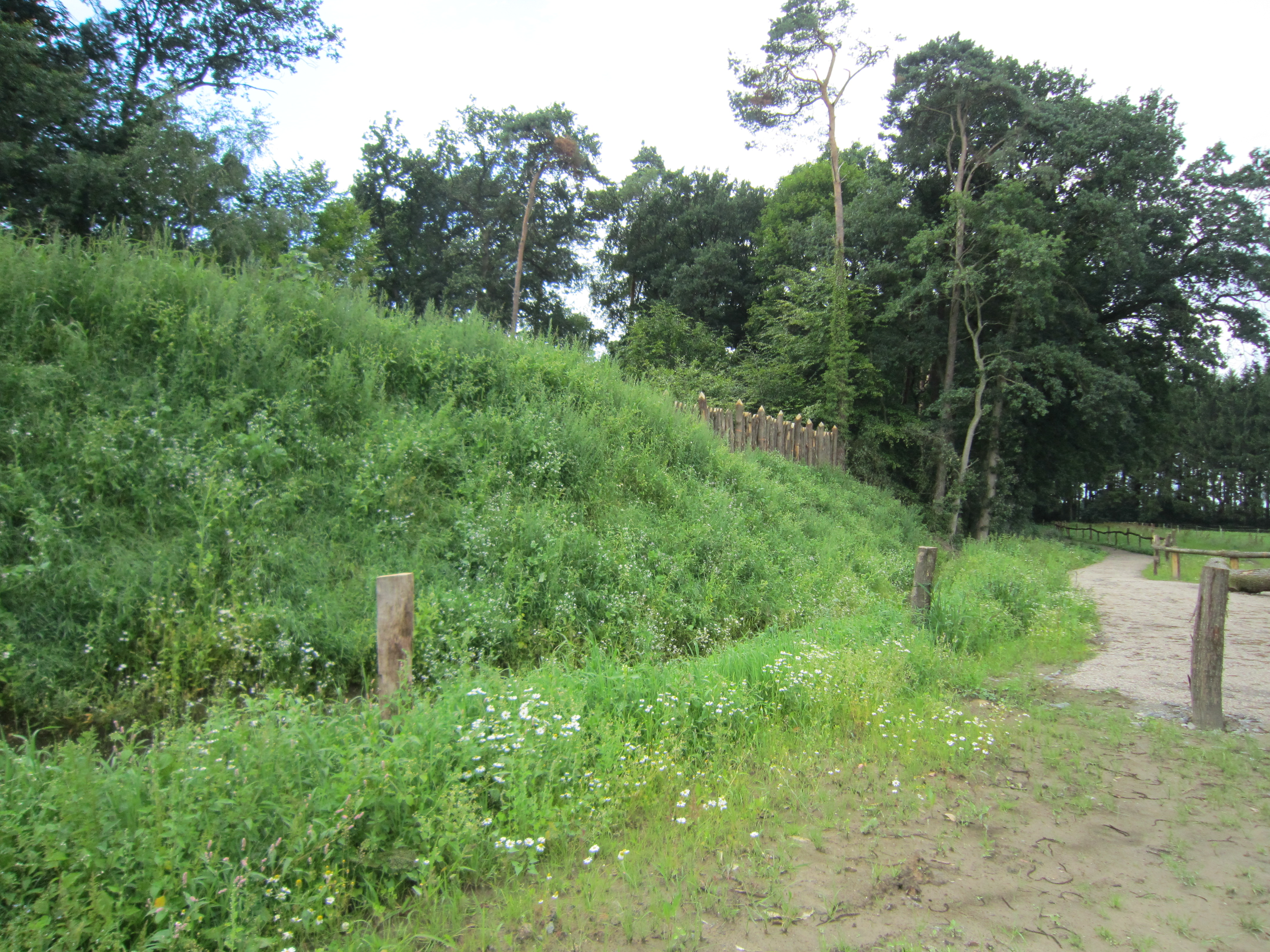 Palisade at the eastern end of the Arkeburg, an early historical hill fort in Goldenstedt, Landkreis Vechta (Lower Saxony)